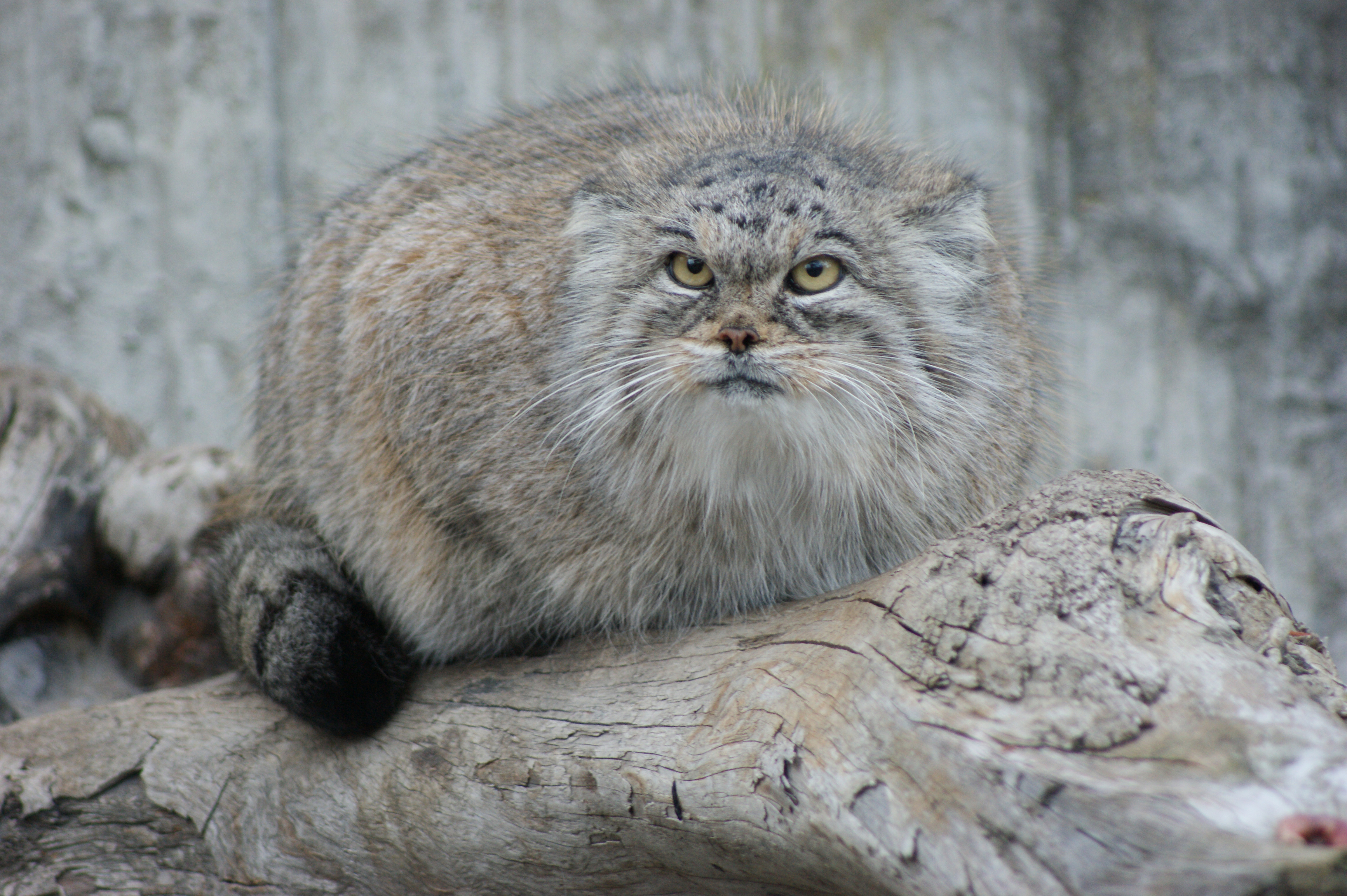 Manul (Otocolobus manul) at Zurich Zoo